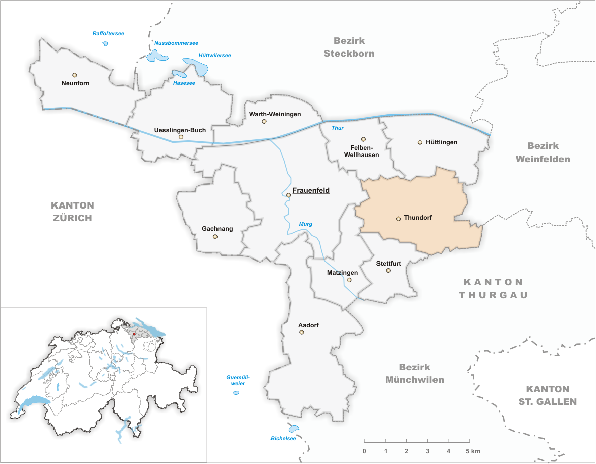 Municipality Thundorf